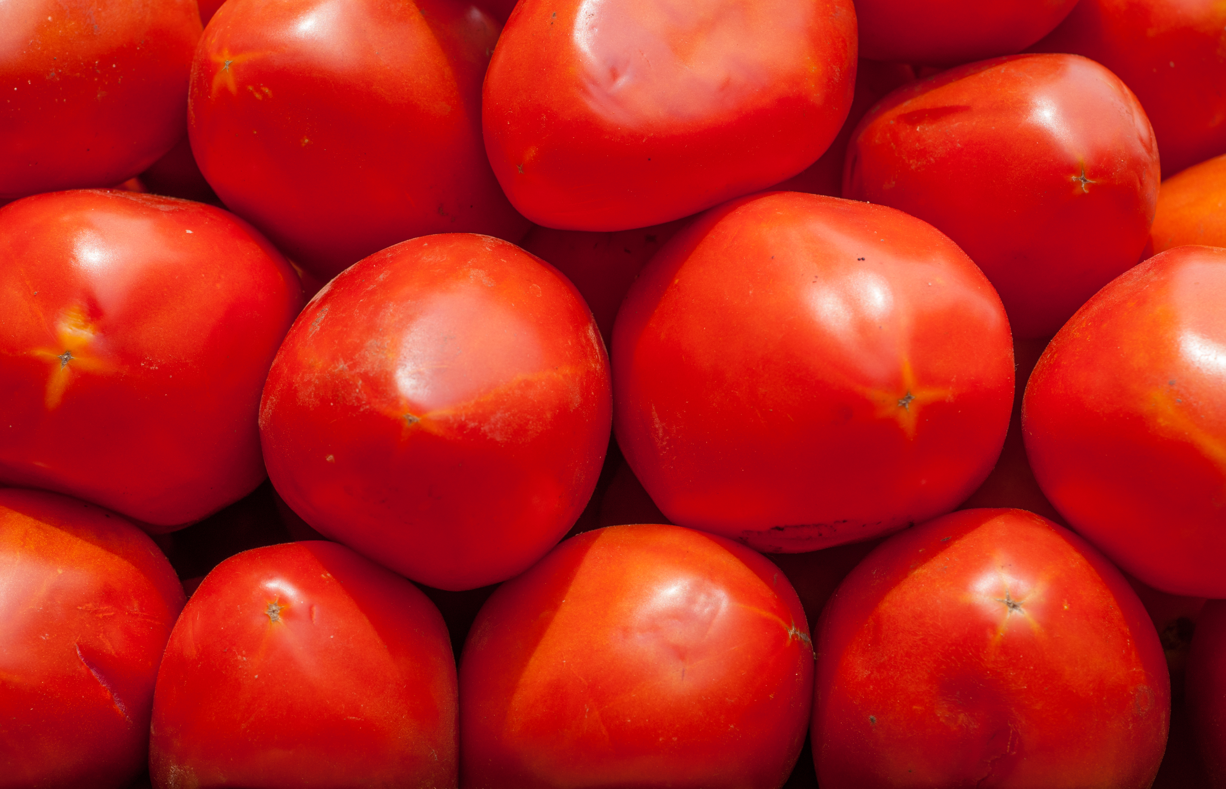 Tomatoes